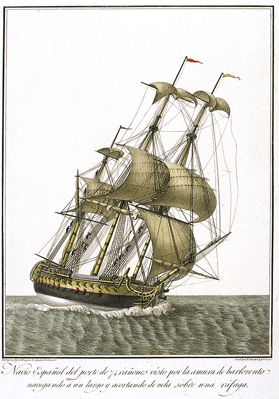 Spanish Ship 74 cannon. Looking at the bow, sailing windward, long and short over a gust.